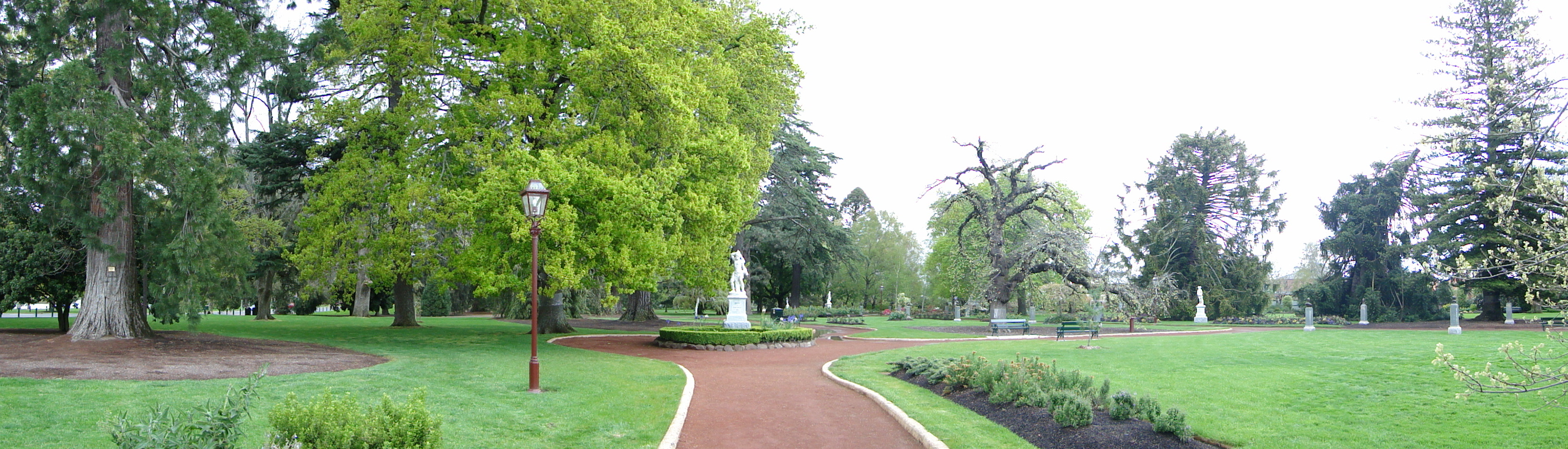 A panoramic view of the Ballarat Botanical Gardens, in Victoria, Australia.